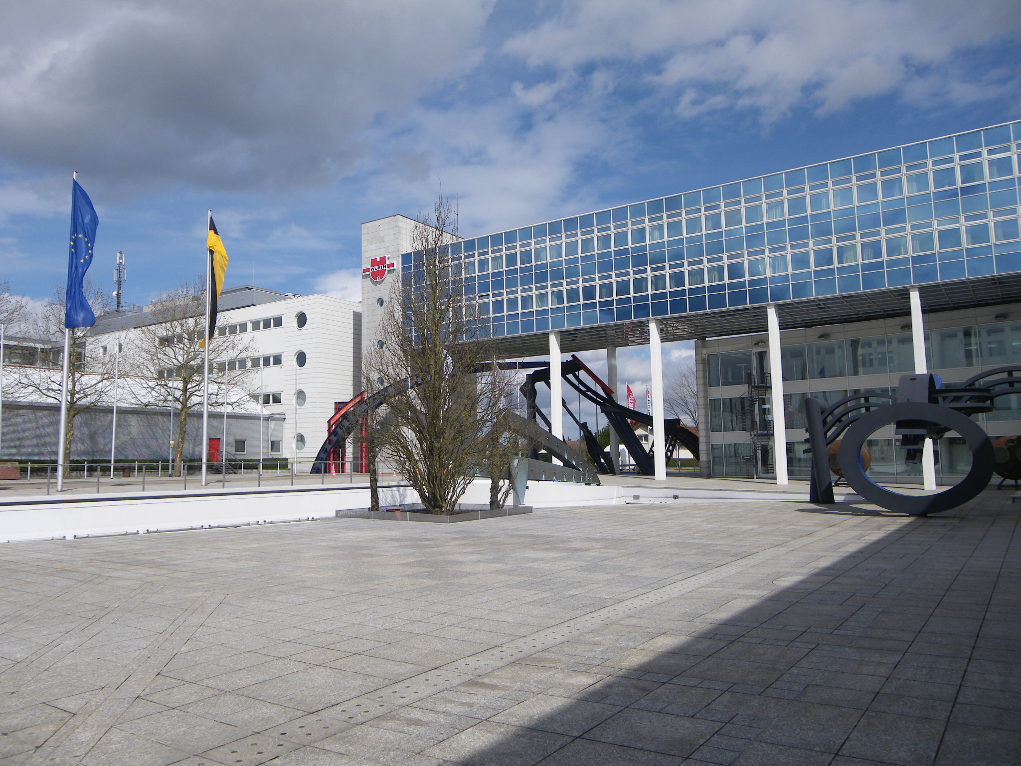 Corporate Headquarters Würth at Künzelsau